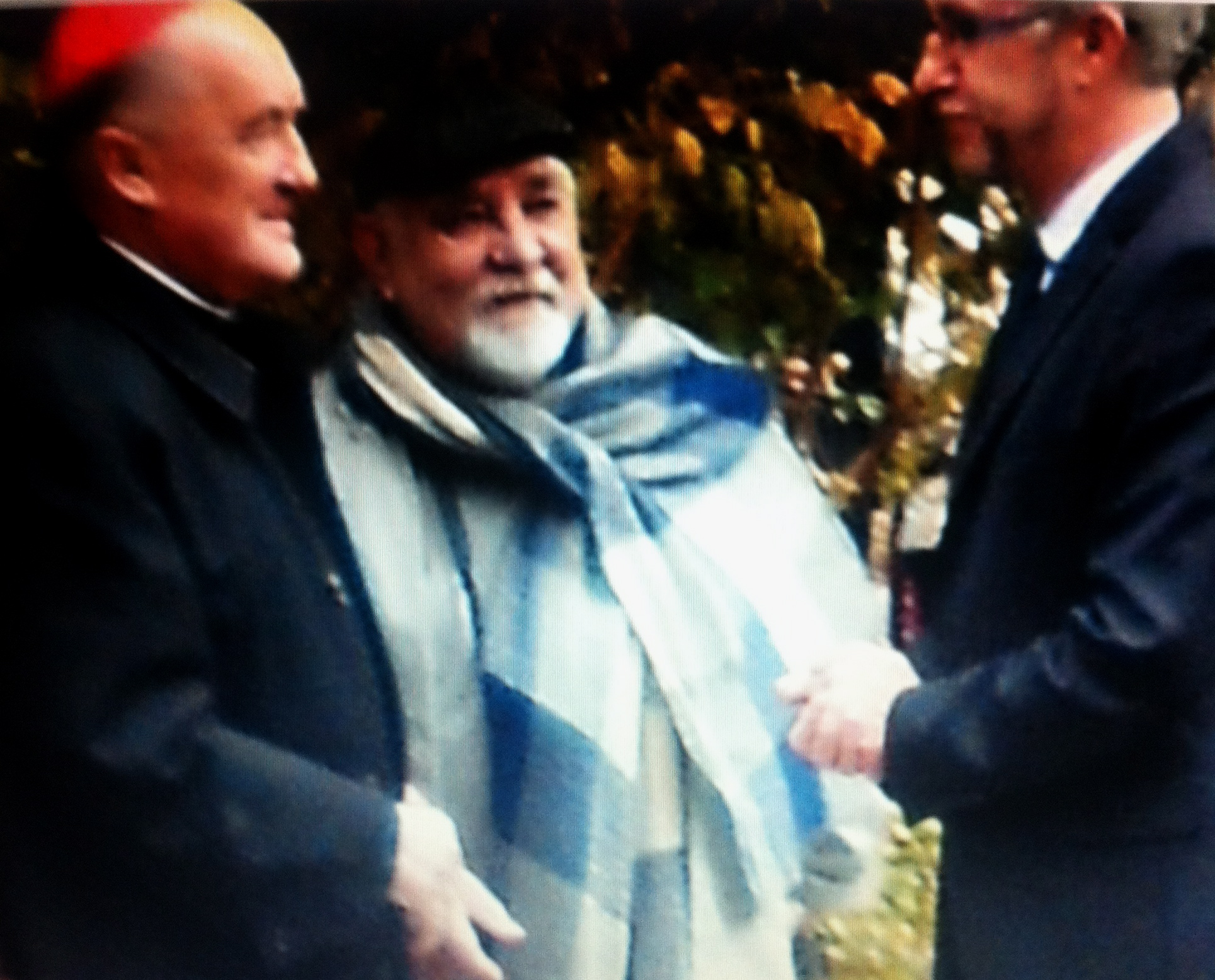 Odsłonięcie Ławeczki ks. Jana Twardowskiego, metropolita warszawski kard. Kazimierz Nycz,wiceprezydent Warszawy Jacek Wojciechowicz, autor pomnika artysta rzeźbiarz Wojciech Gryniewicz